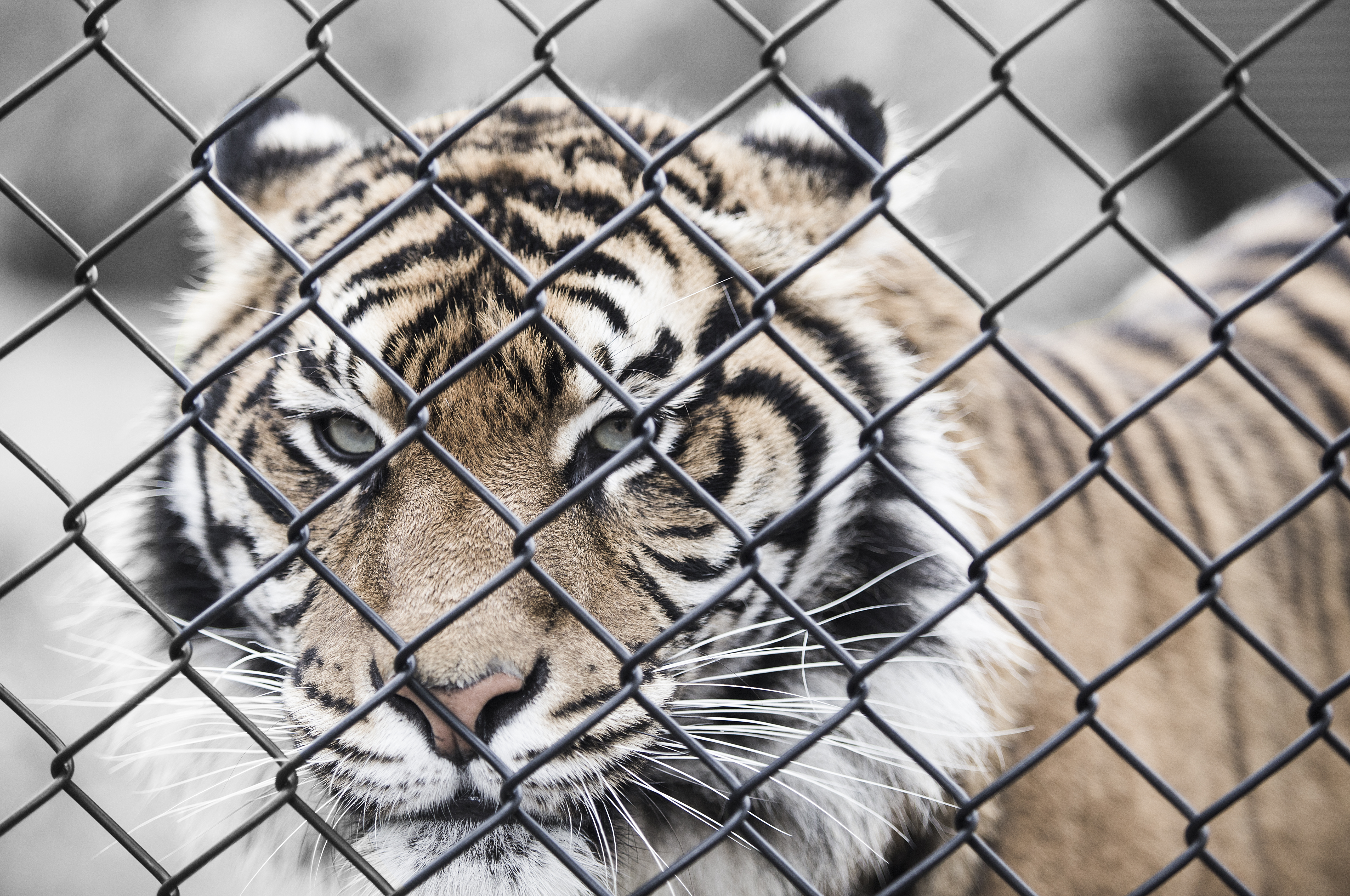 Symbio Wildlife Park, Helensburgh, Australia